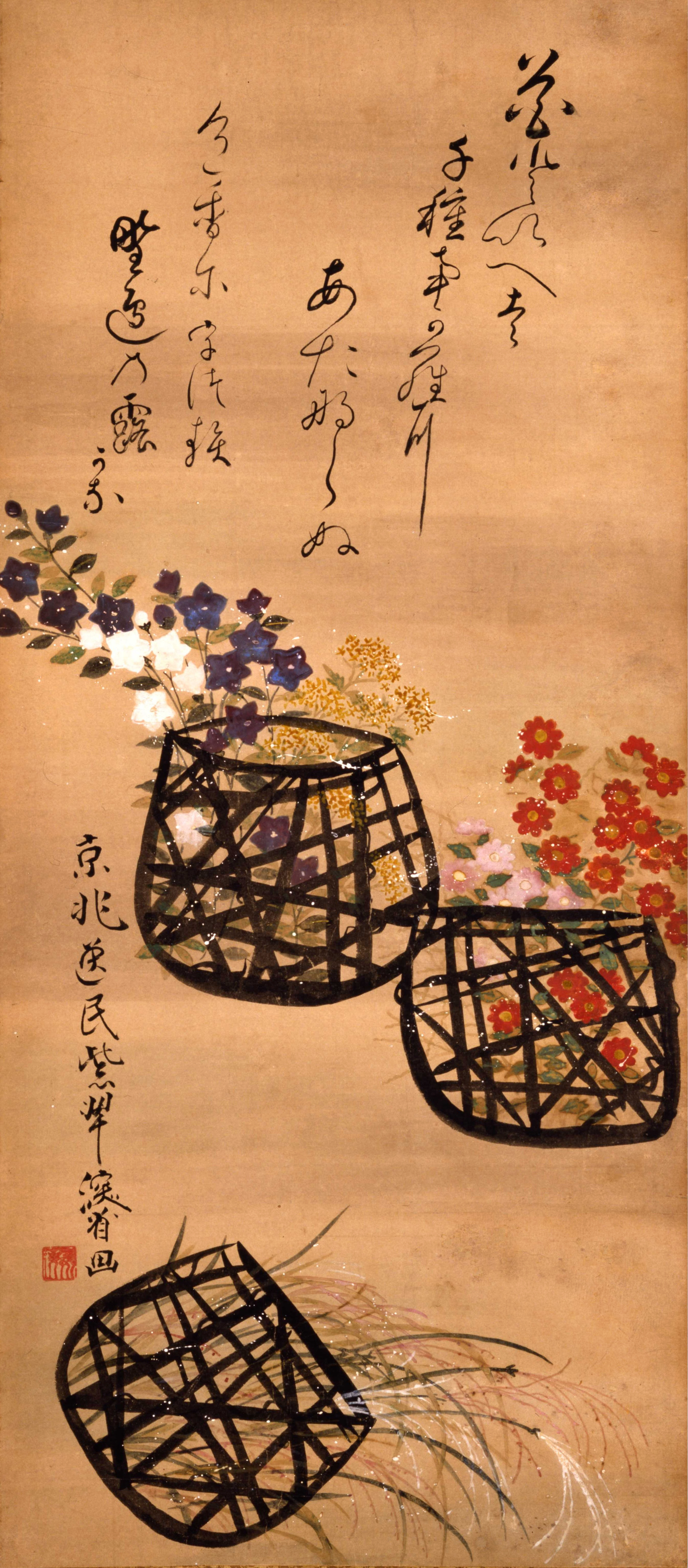 Flower Baskets by Ogata Kenzan, Fukuoka Art Museum, Fukuoka, Fukuoka, Japan